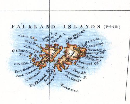 By Johnston (1893)